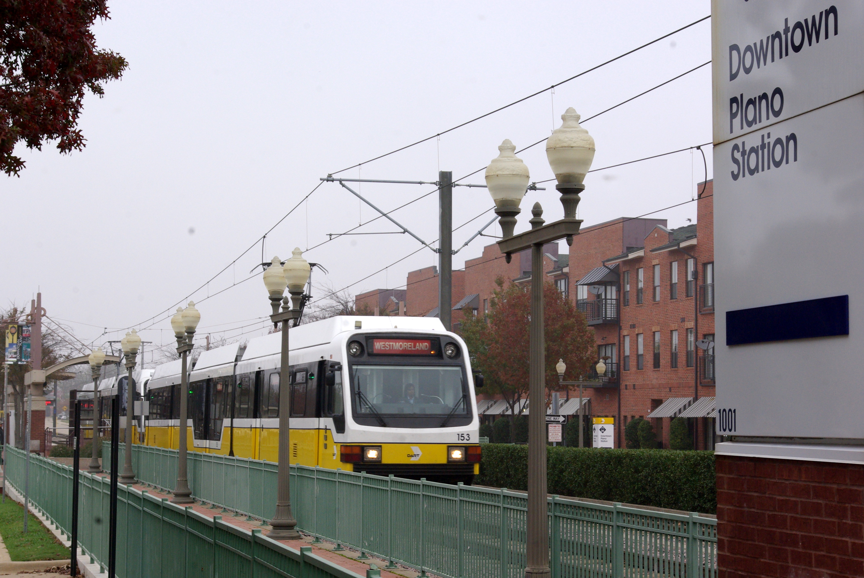 South bound DART train leaving Downtown Plano Station on the Red Line.